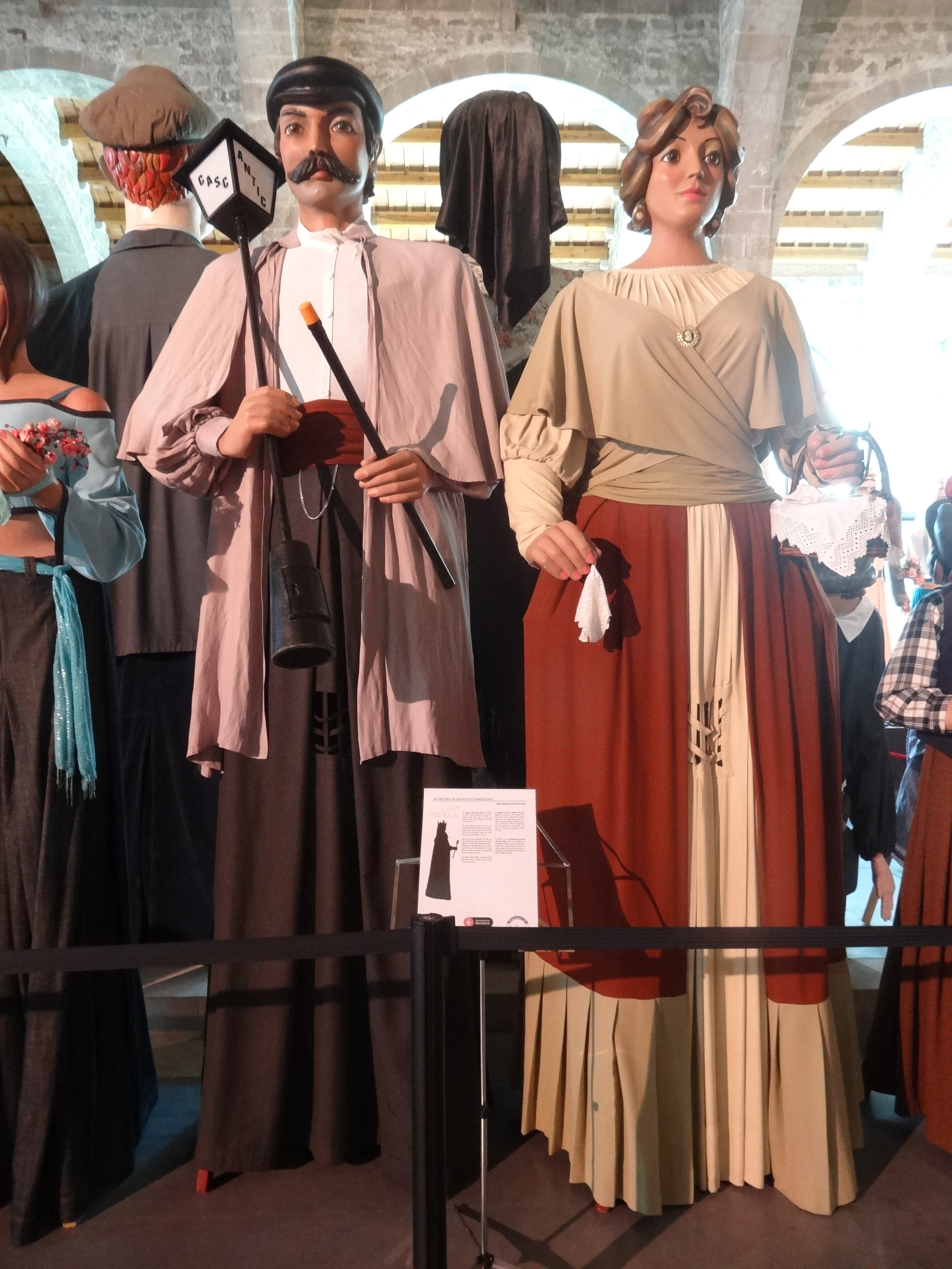 Exhibition of Giants at the Museu Marítim, Barcelona, 2013.